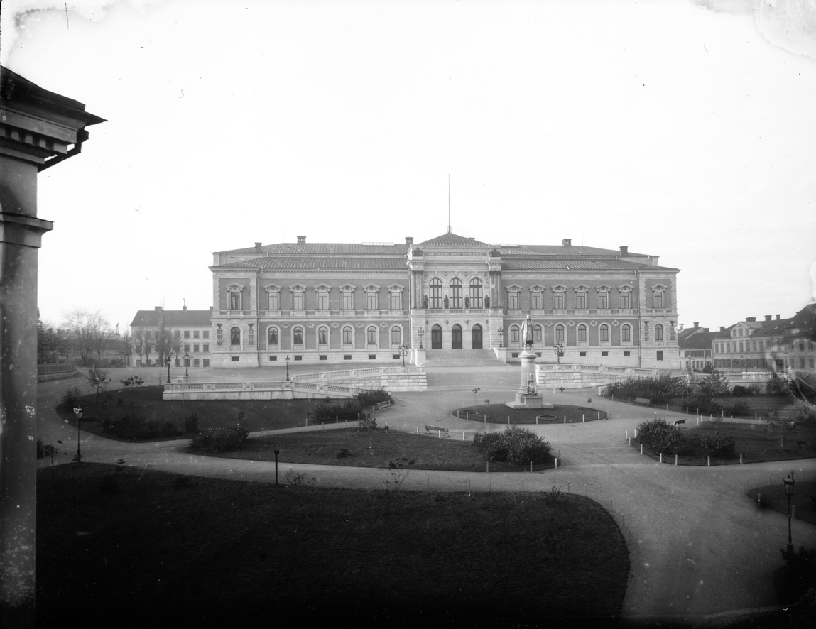 Universitetshuset och Universitetsparken, Uppsala 1889. The University Main Building is situated in the center of the town, close to the cathedral. It was built in the 1880s. Parliament had allocated funding, and King Oscar II laid the cornerstone in pouring rain on a spring day in 1879. The site was formerly occupied by a large academic riding building, which was torn down for the new edifice. On May 17, 1887 the building was inaugurated at a festive ceremony. The architect was Herman Teodor Holmgren. Upplandsmuseet: OB0002 Flickr data on 2011-08-24: Tags: Uppsala, Uppland, Sweden License: CC BY 2.0 User: Upplandsmuseet Upplandsmuseet Länsmuseum för Uppsala län